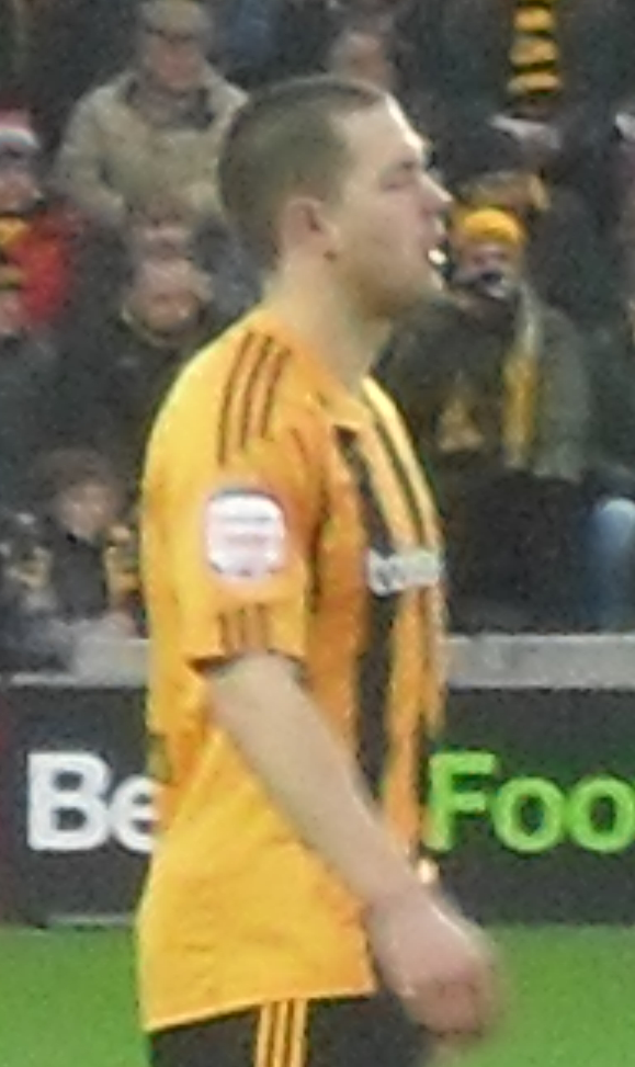 Matty Fryatt